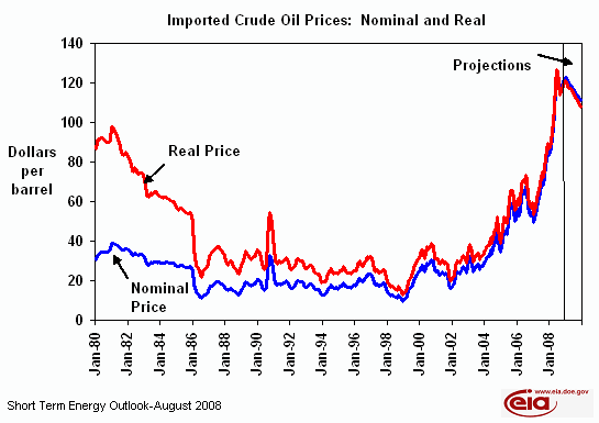 Real and Nominal (inflation adjusted) oil prices